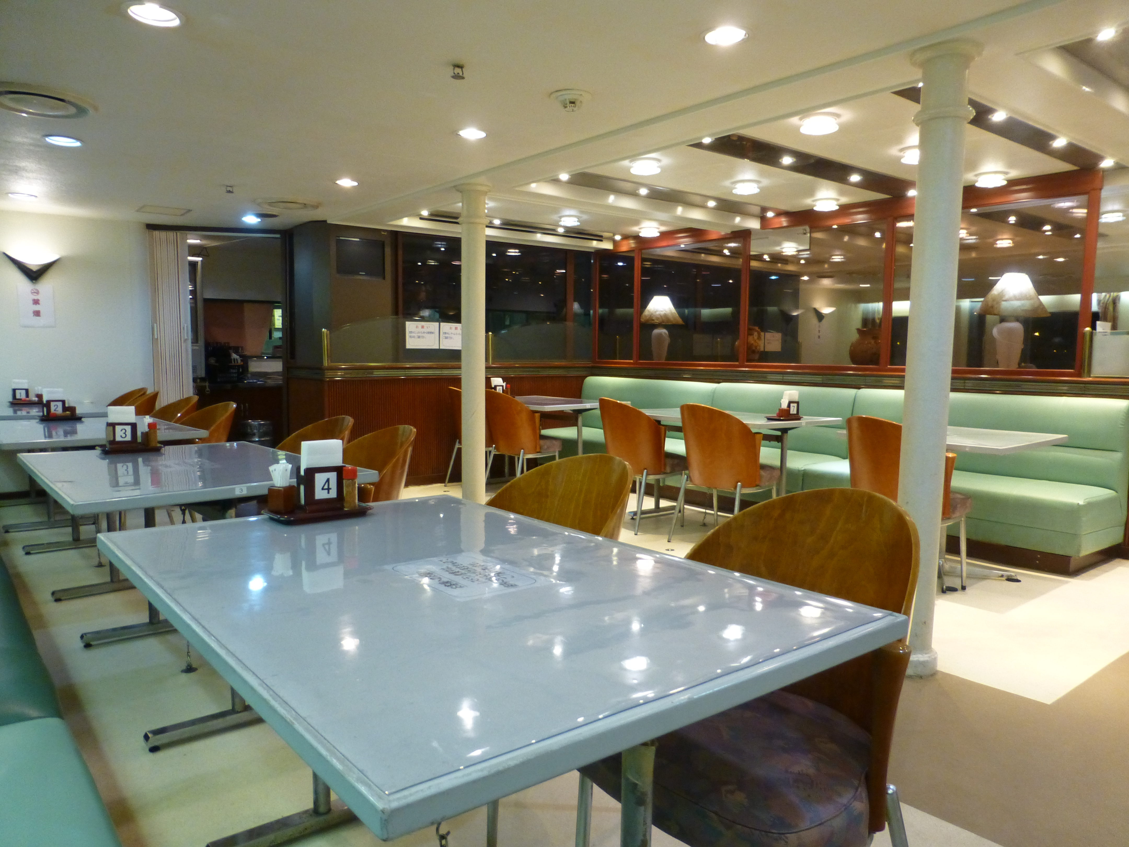 Restaurant of Salvia Maru.